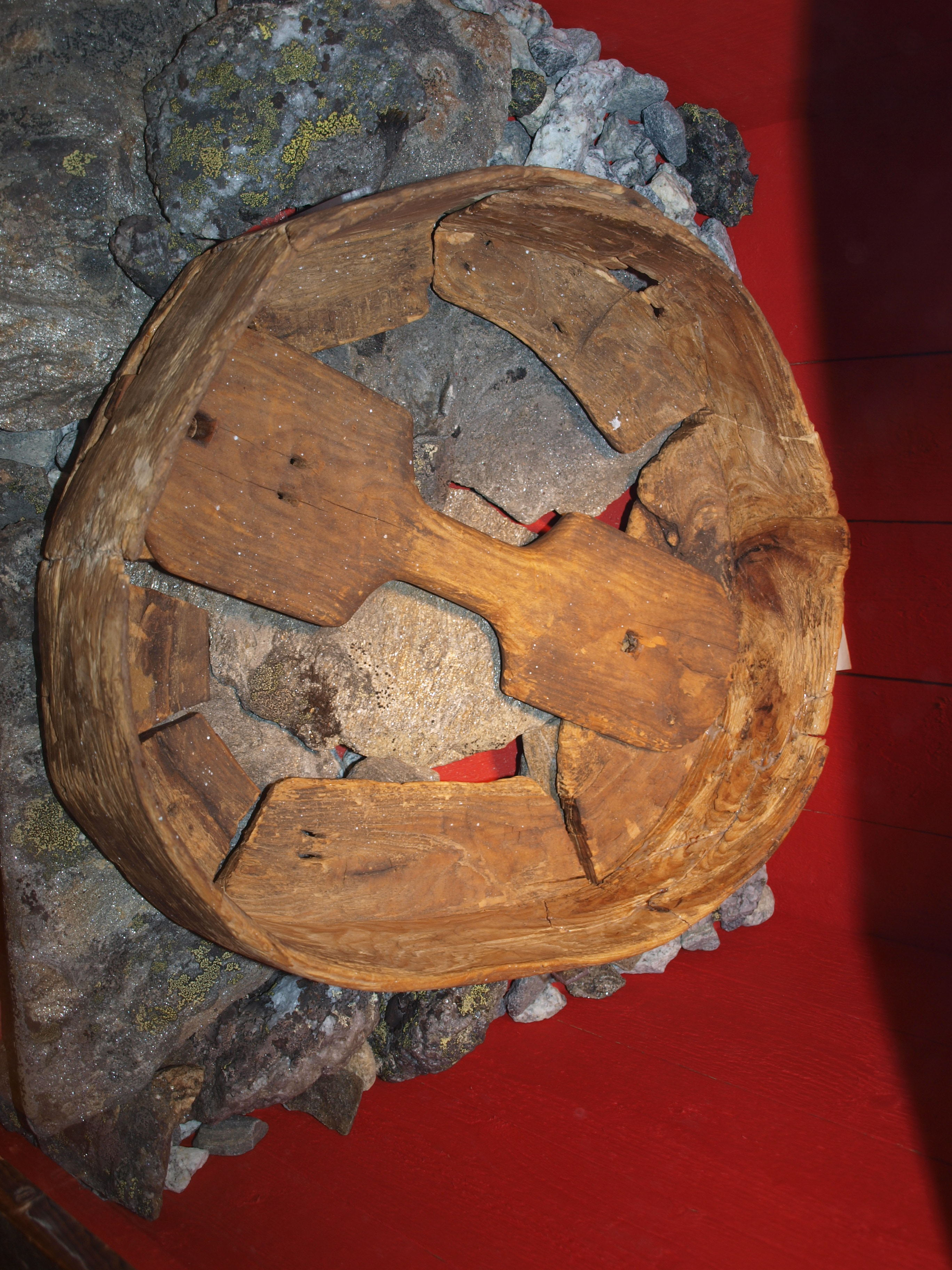 Remains of a Sami drum from Steigen, Nordland, Norway; C14 dated to AD 1500; found in the 1950s